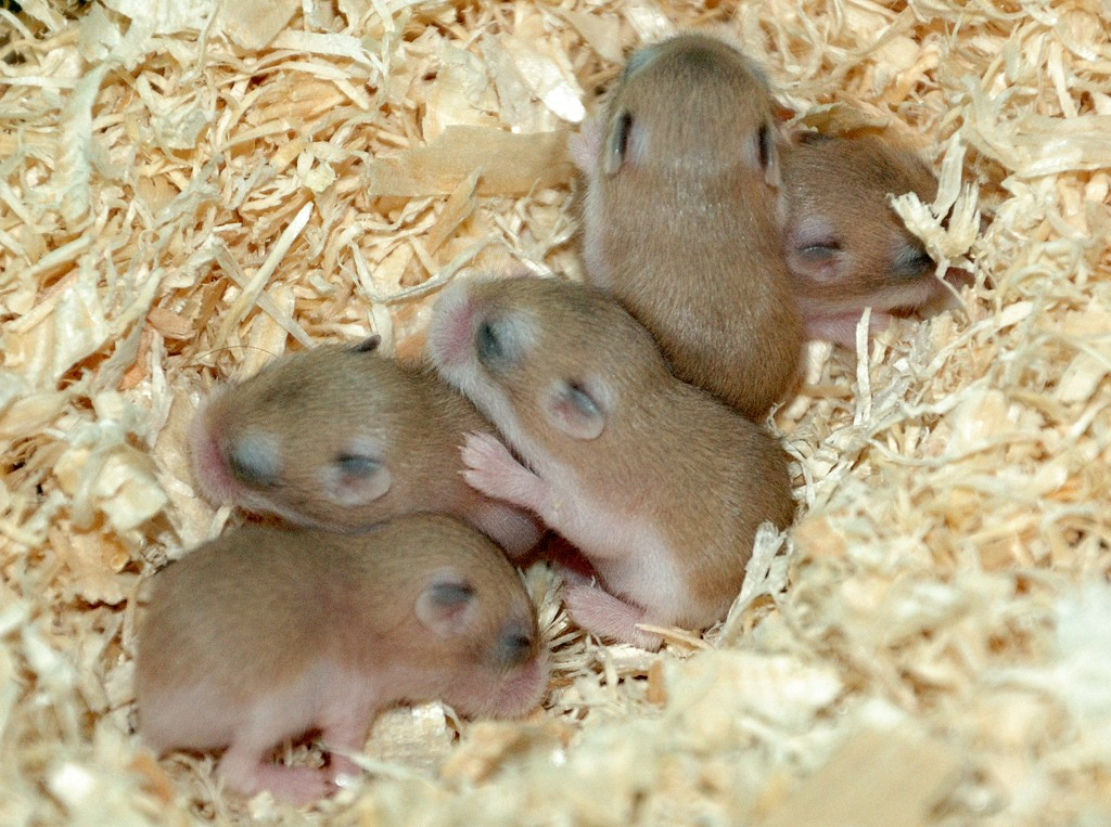 Phodopus roborovskii 8 days old